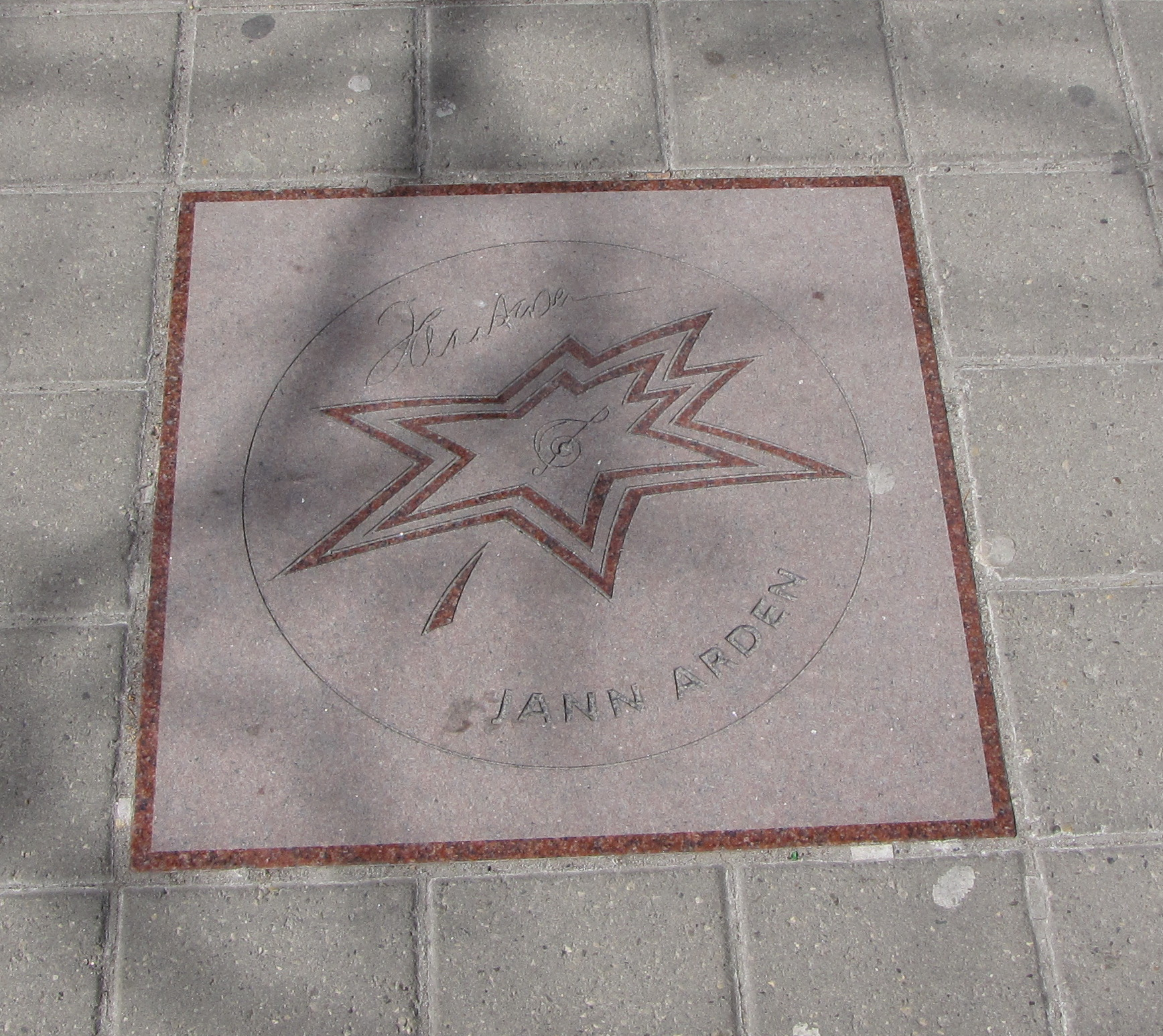 Jann Arden's star on Canada's Walk of Fame